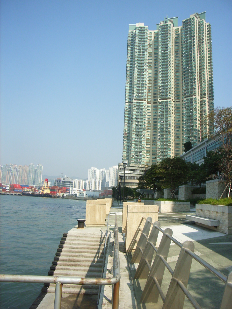 凱帆軒（Hampton Place） 是zh:香港zh:西九龍zh:奧運站的一個私人屋苑. Photo by User:OLAMB